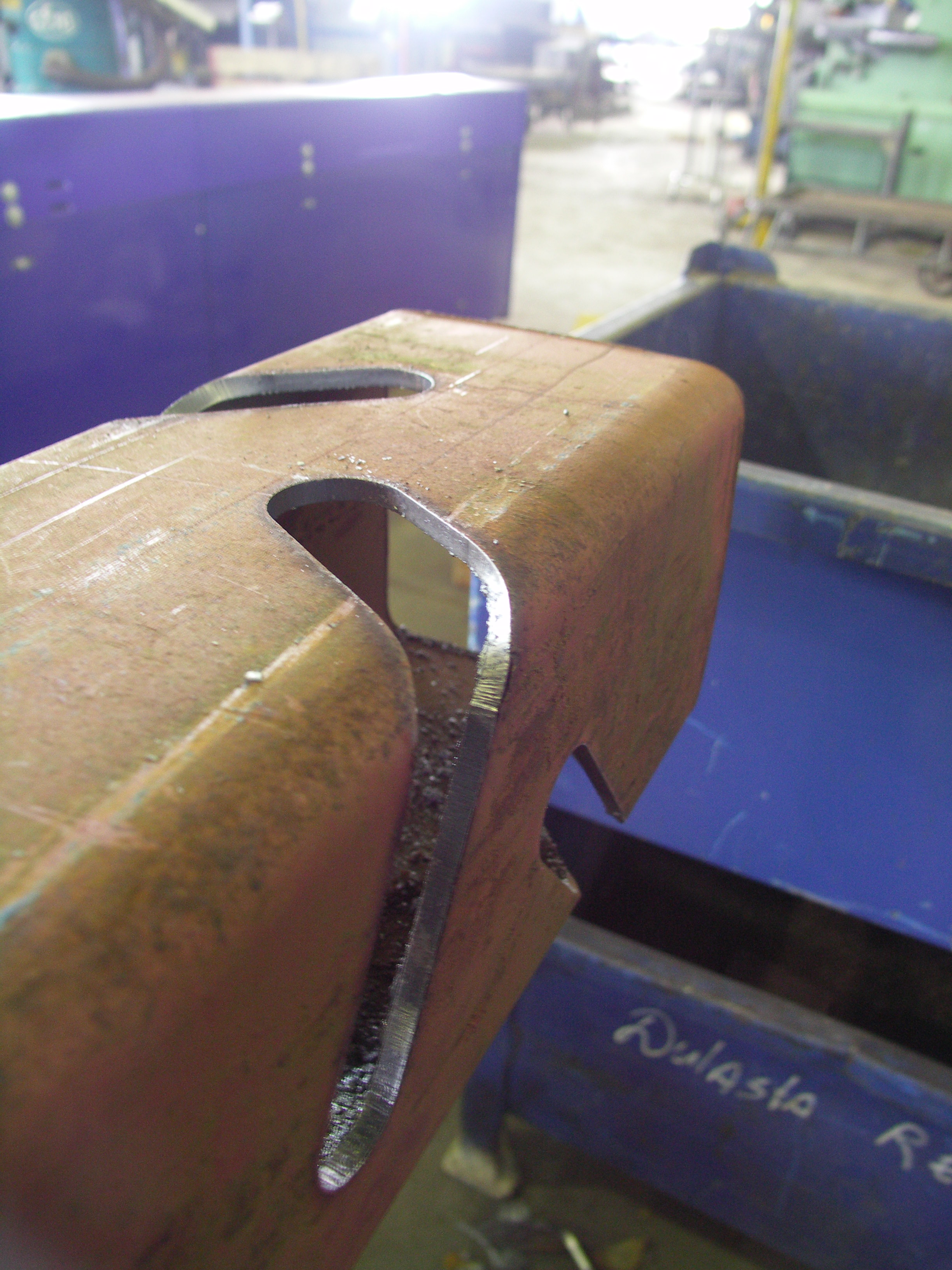 Hole cut out with a plasma cutter.